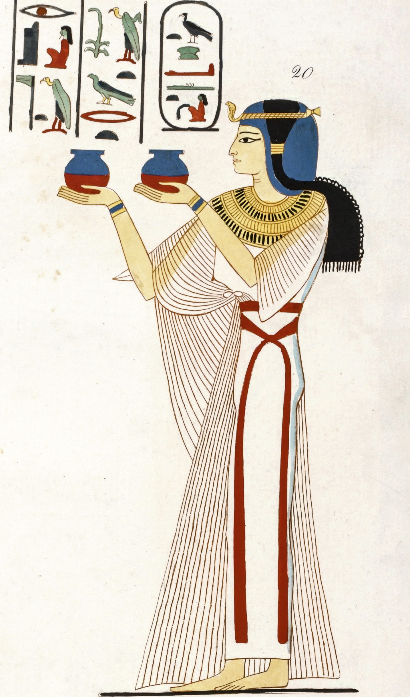 Image of Egyptian lady and hieroglyphs; The inscription reads: The Osiris, God's Mother, Great King's Mother, Takhat.